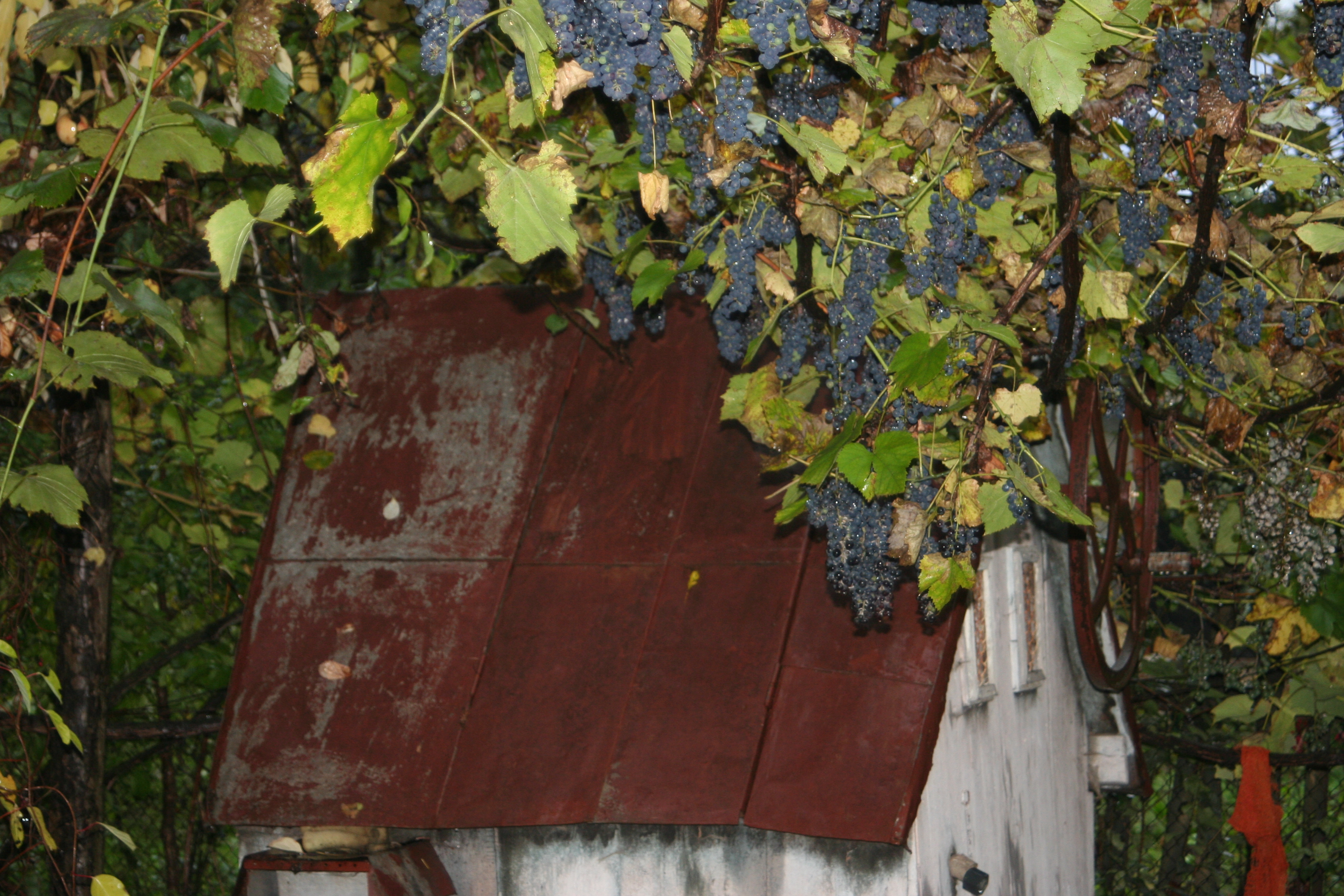 Grapes for Home Wine production, Chernivtsi Ukraine.